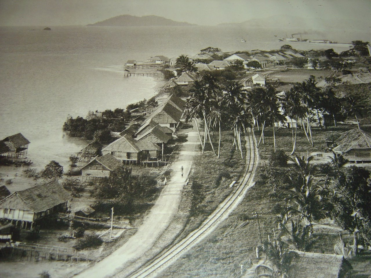 Panorama of Jesselton in 1911.